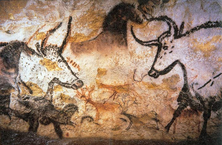 Photography of Lascaux animal painting